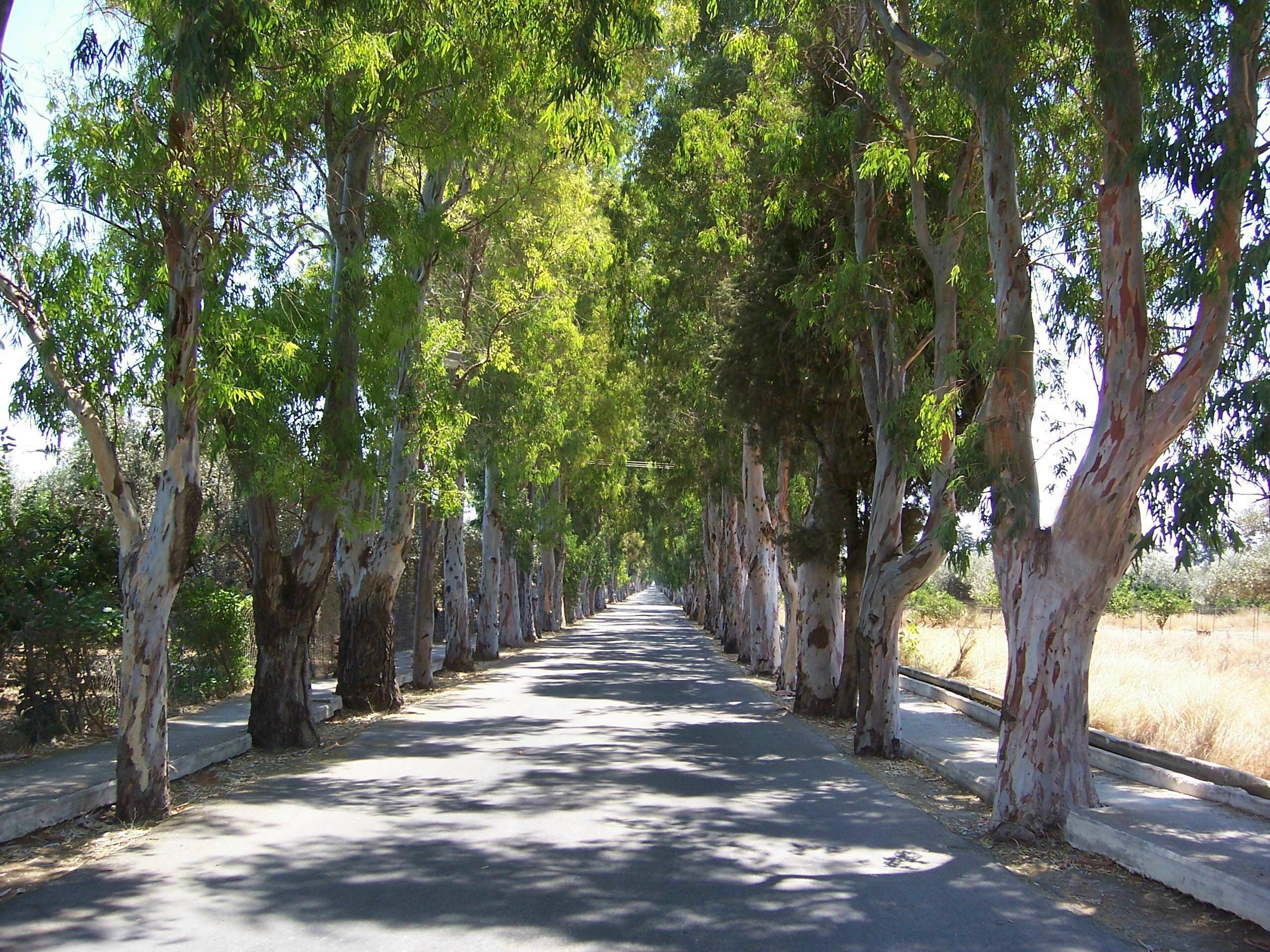 Eucalyptus avenue towards Kolymbia, Rhodos